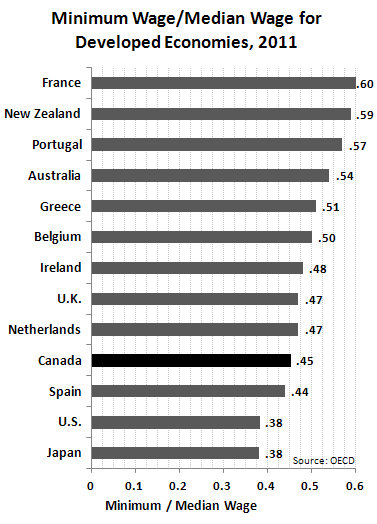 Minimum wage levels in selected developed economies as a share of median full-time wage with Canada highlighted, 2011.